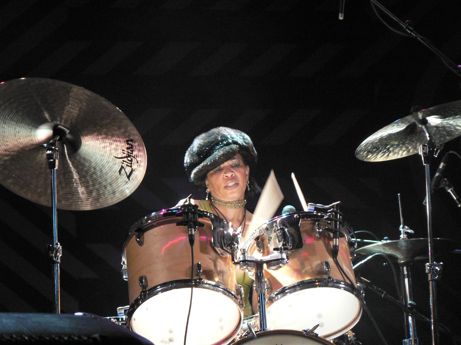 Cindy Blackman plays at Willisau Jazz 2007, Switzerland